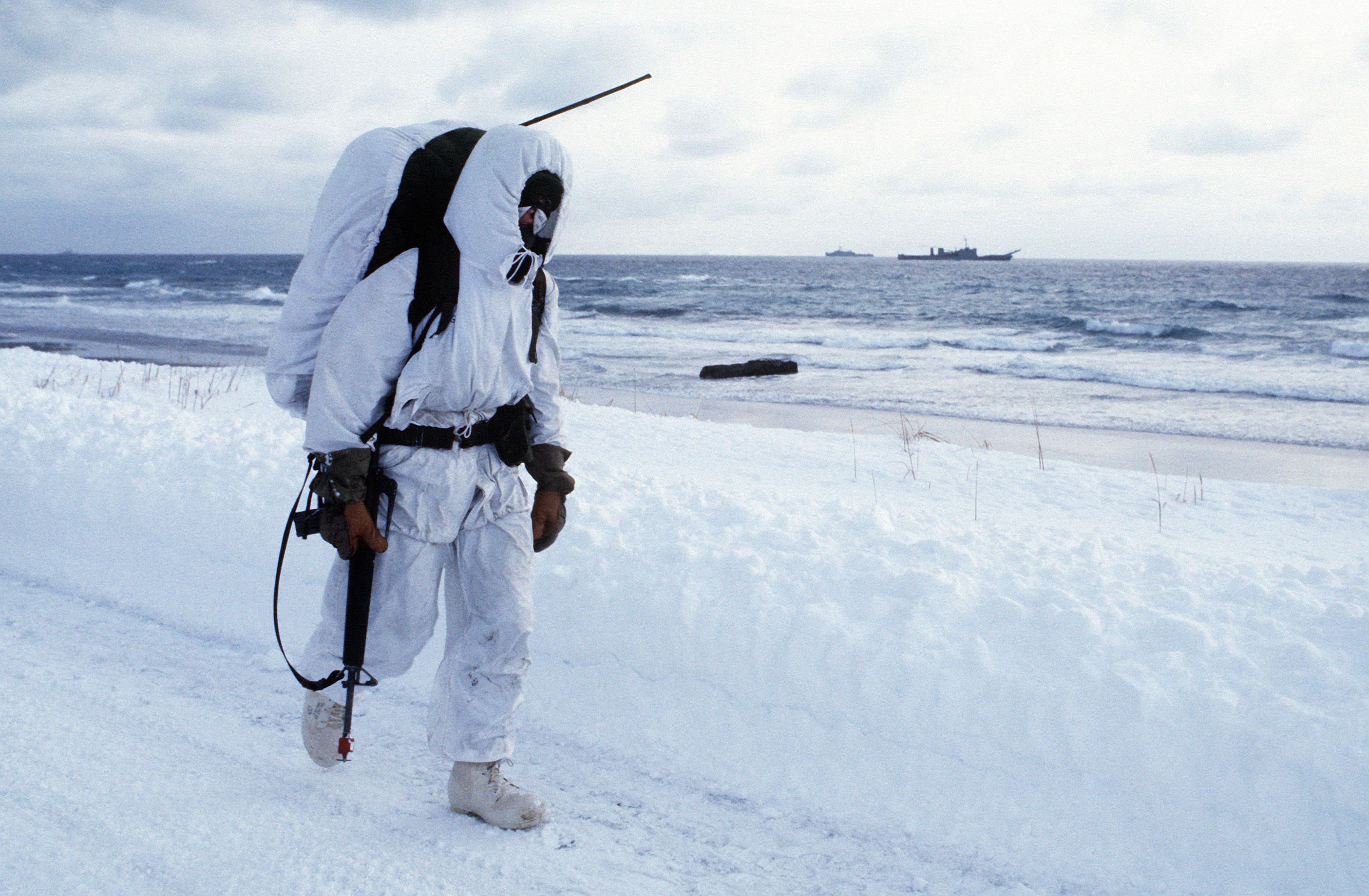 Braced against the cold, a Marine from the 11th Marine Amphibious Unit moves out in his white exposure suit during Exercise KERNEL POTLATCH 1987, the first winter amphibious operation in the Aleutian Islands since World War II. Location: SHEMYA ISLAND, ALASKA (AK) UNITED STATES OF AMERICA (USA)